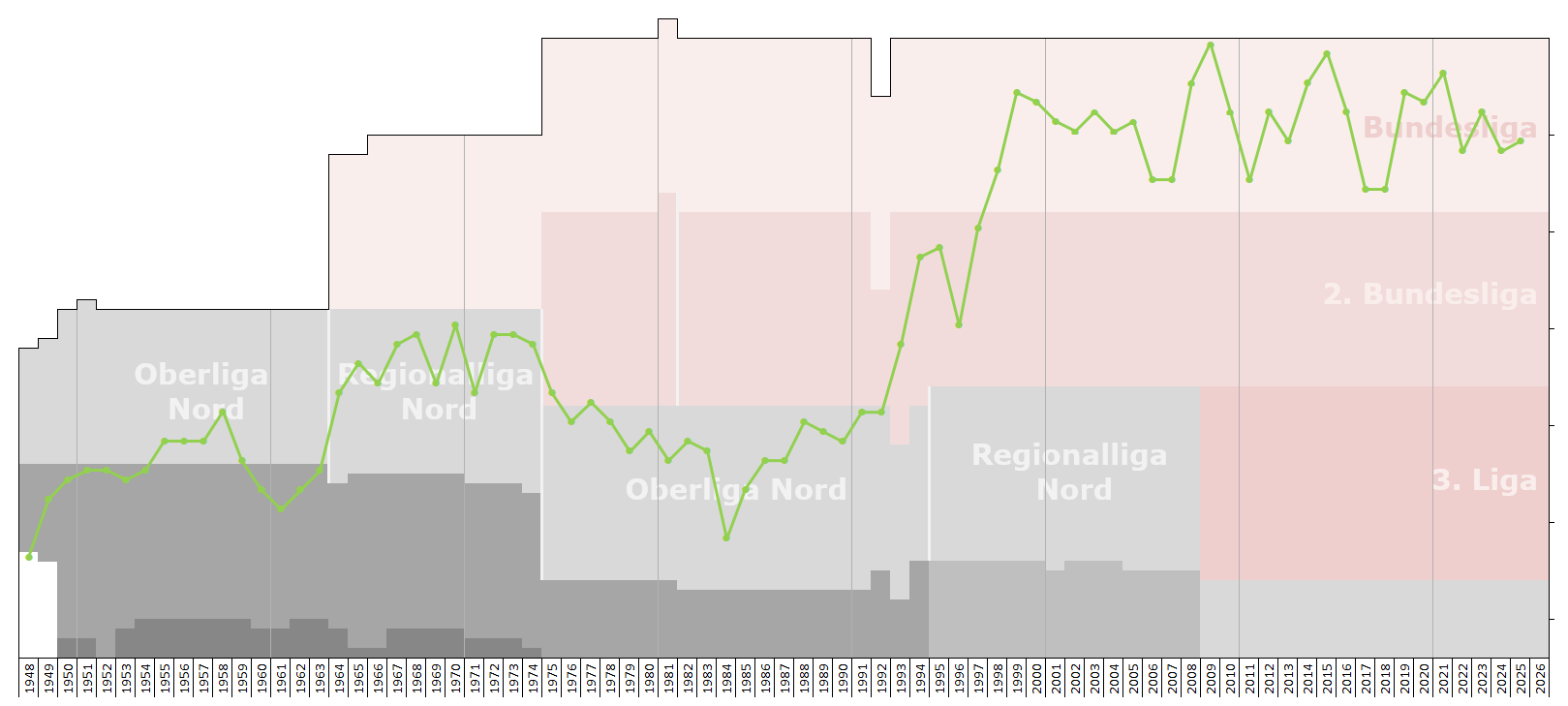 Chart of end-season table positions of VfL Wolfsburg in the football league system of Germany. Data source: RSSSF, wikipedia, f-archiv.de, fussball.de